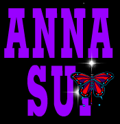 Anna Sui logo interpretation by branchewu